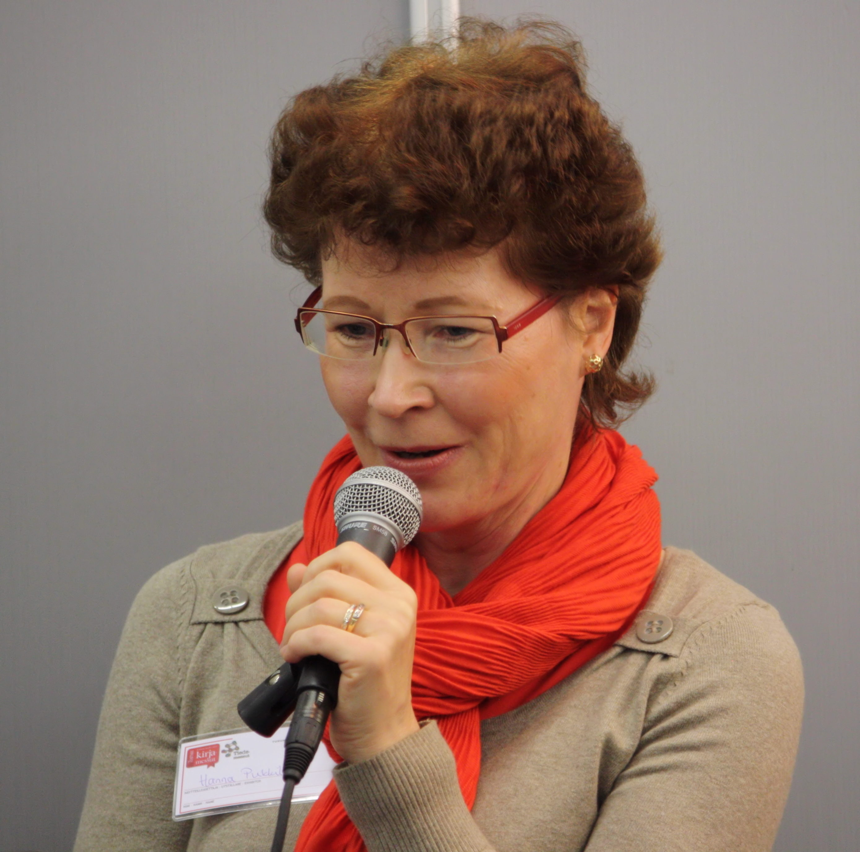 Finnish non-fiction writer and editor Hanna Pukkila at the Turku Book Fair 2012